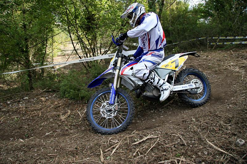 Anders Eriksson riding his BMW E3 bike at the 2008 World Enduro Championship Grand Prix of Italy in Piediluco.